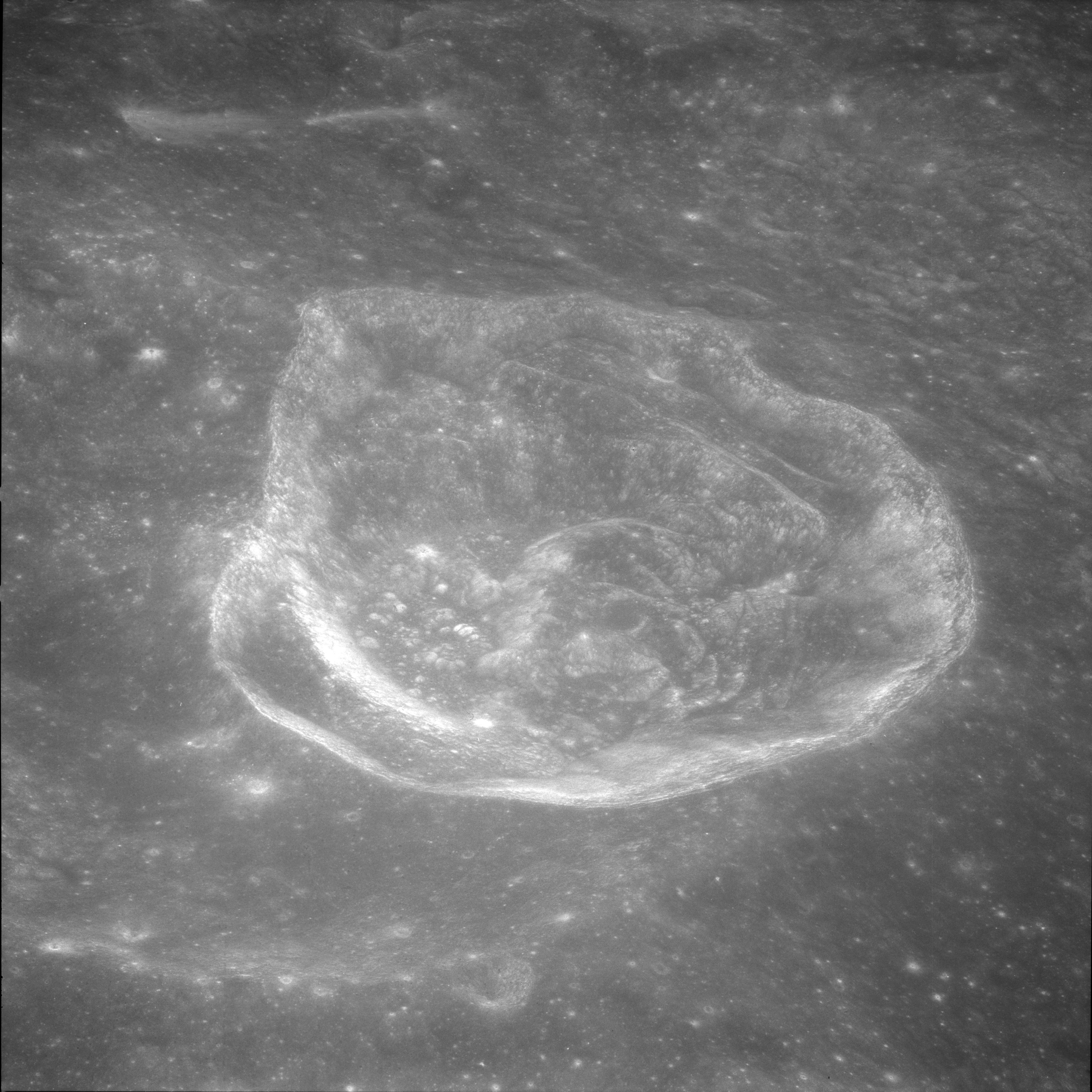 Oblique view of Saha E crater, on the moon.